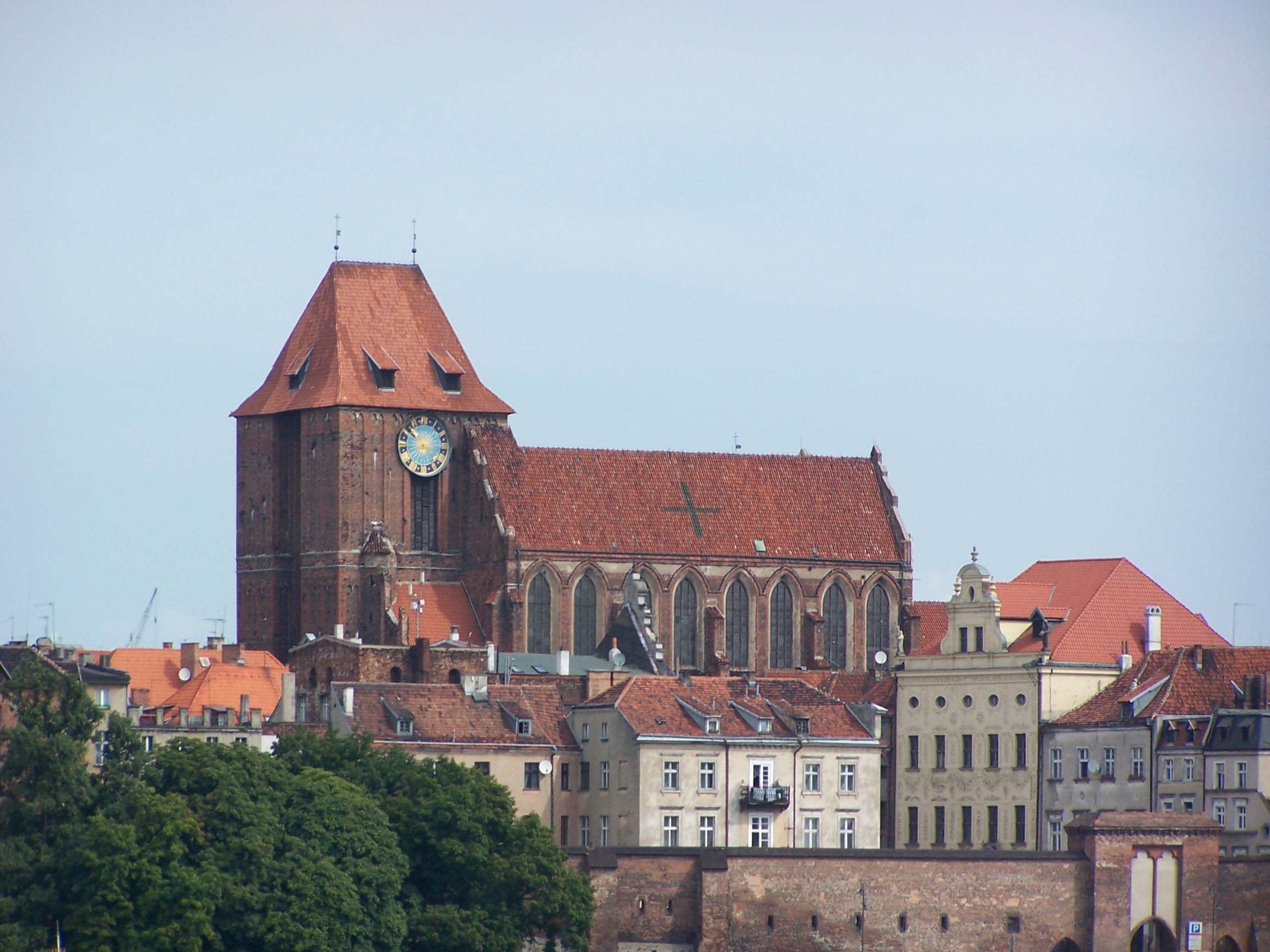 SS. Johns' cathedral in Toruń, view from south